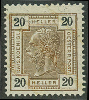 Austrian stamp issued 1904, face value of 20 heller, showing Emperor Franz Josef in profile, printed on granite paper and bearing varnish bars over the design as an anti-forgery device.